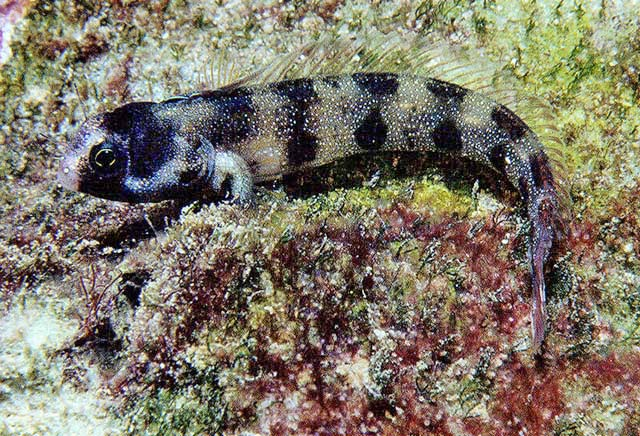 Acanthemblemaria atrata, Cocos Island (Costa Rica)